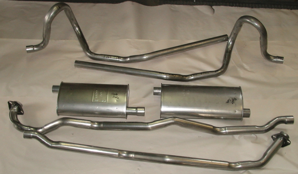 Aluminized Steel car parts